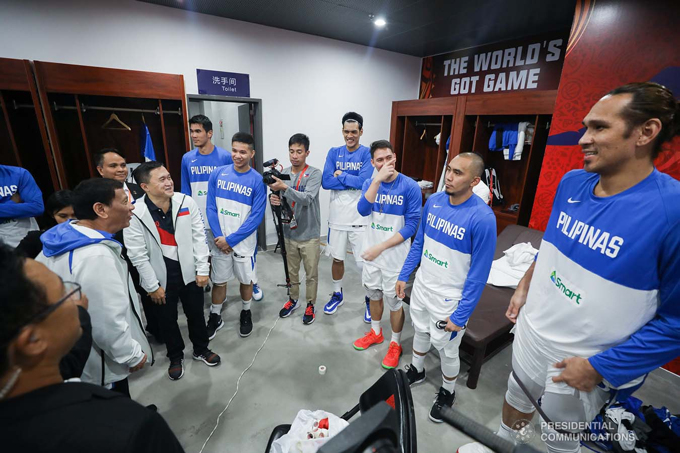 President Rodrigo Roa Duterte and Senator Christopher Lawrence Go share a light moment with the members of Gilas Pilipinas as they visit the locker room before watching the Philippines men's national basketball team go up against Italy during the FIBA Basketball World Cup 2019 game at the Foshan International Sports and Cultural Center in Guangdong on August 31, 2019. SIMEON CELI/ PRESIDENTIAL PHOTO